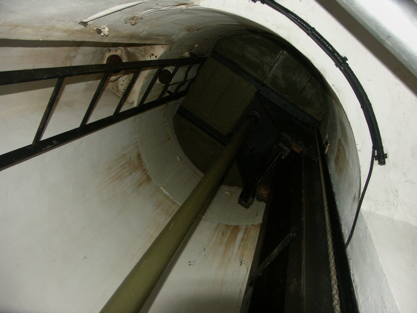 The inside of a GFM bell